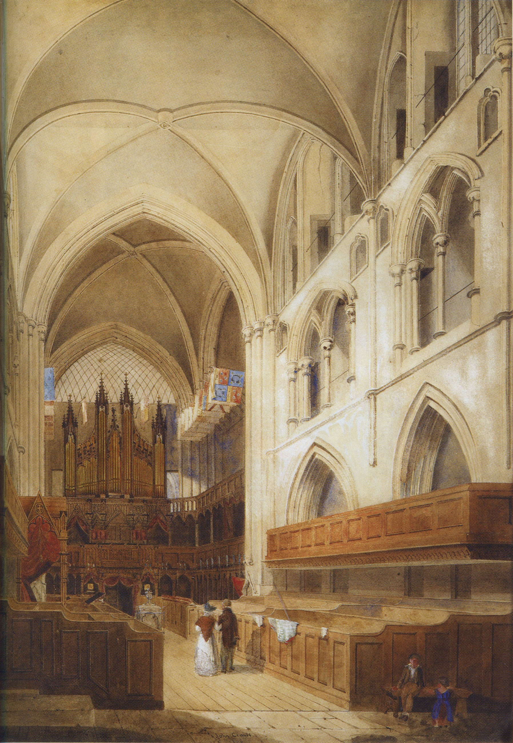 Water-colour drawing, titled Interior of the Choir of St. Patrick's Cathedral, by John Cruise. This drawing shows the choir looking west including its rood screen before it was taken down in the course of the restoration of St. Patrick's Cathedral under the direction of Benjamin Lee Guiness.